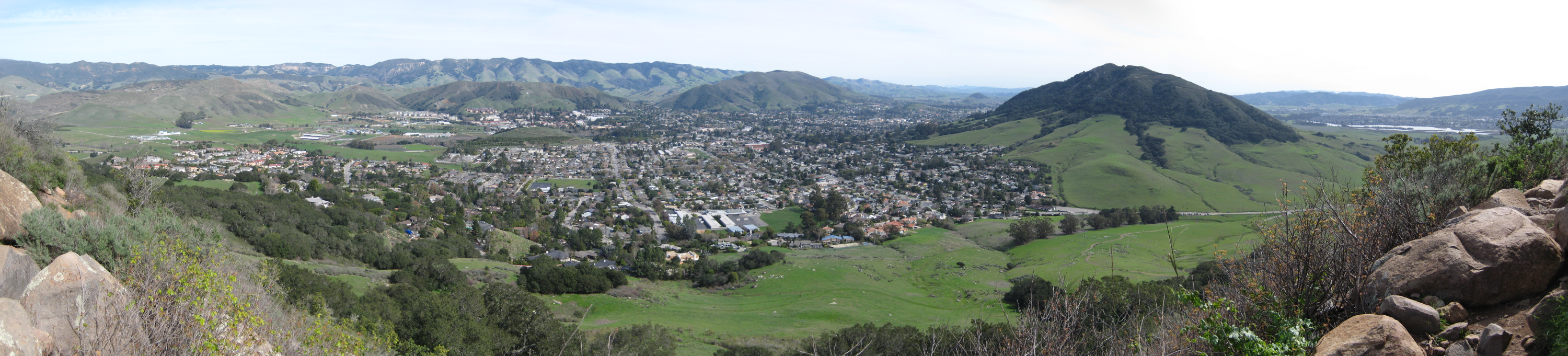 Panorama of San Luis Obispo. Used Hugin to stitch 5 different images taken with Canon PowerShot SD750. Resized with GIMP.